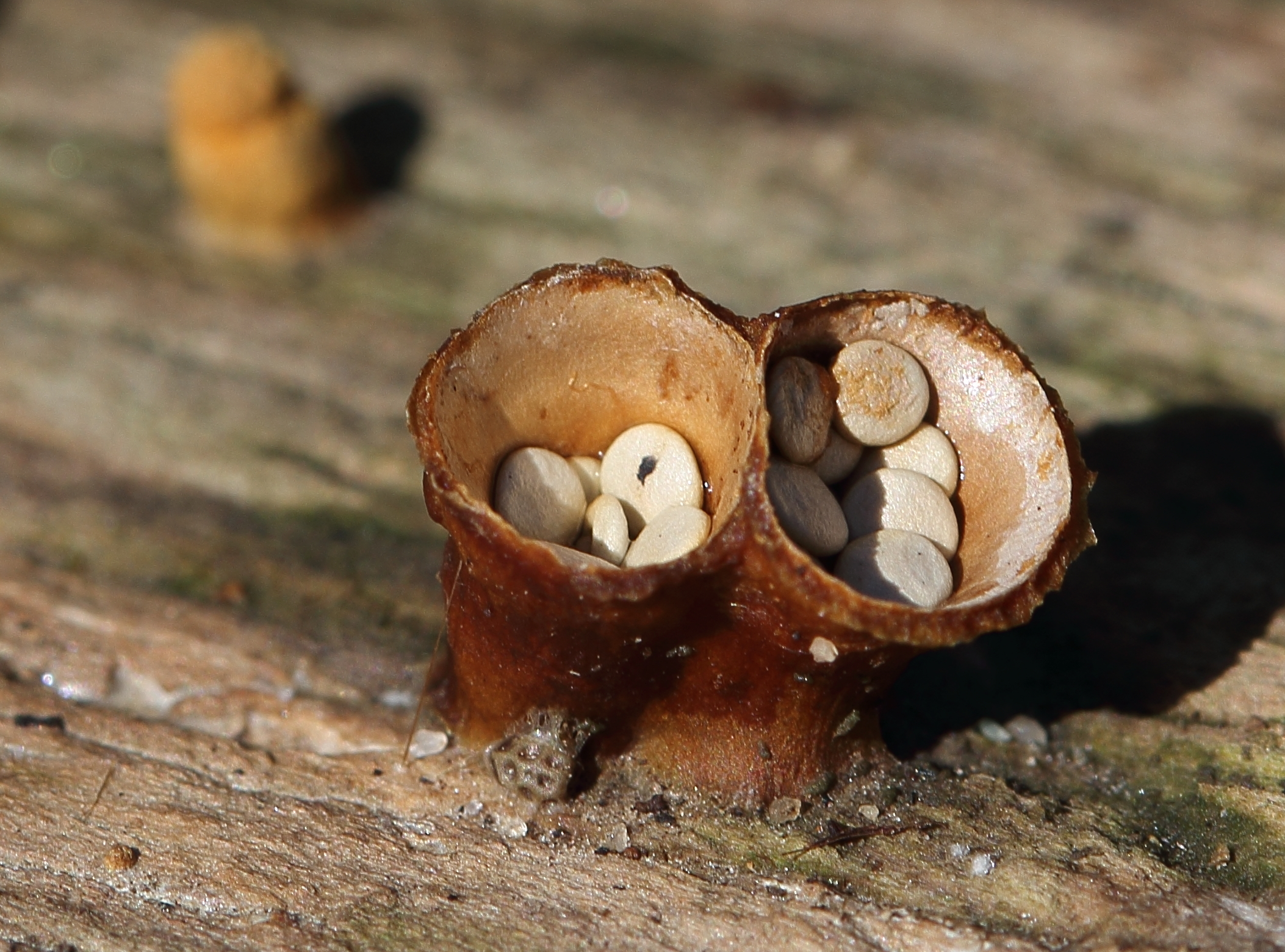 Cyathus on dead wood